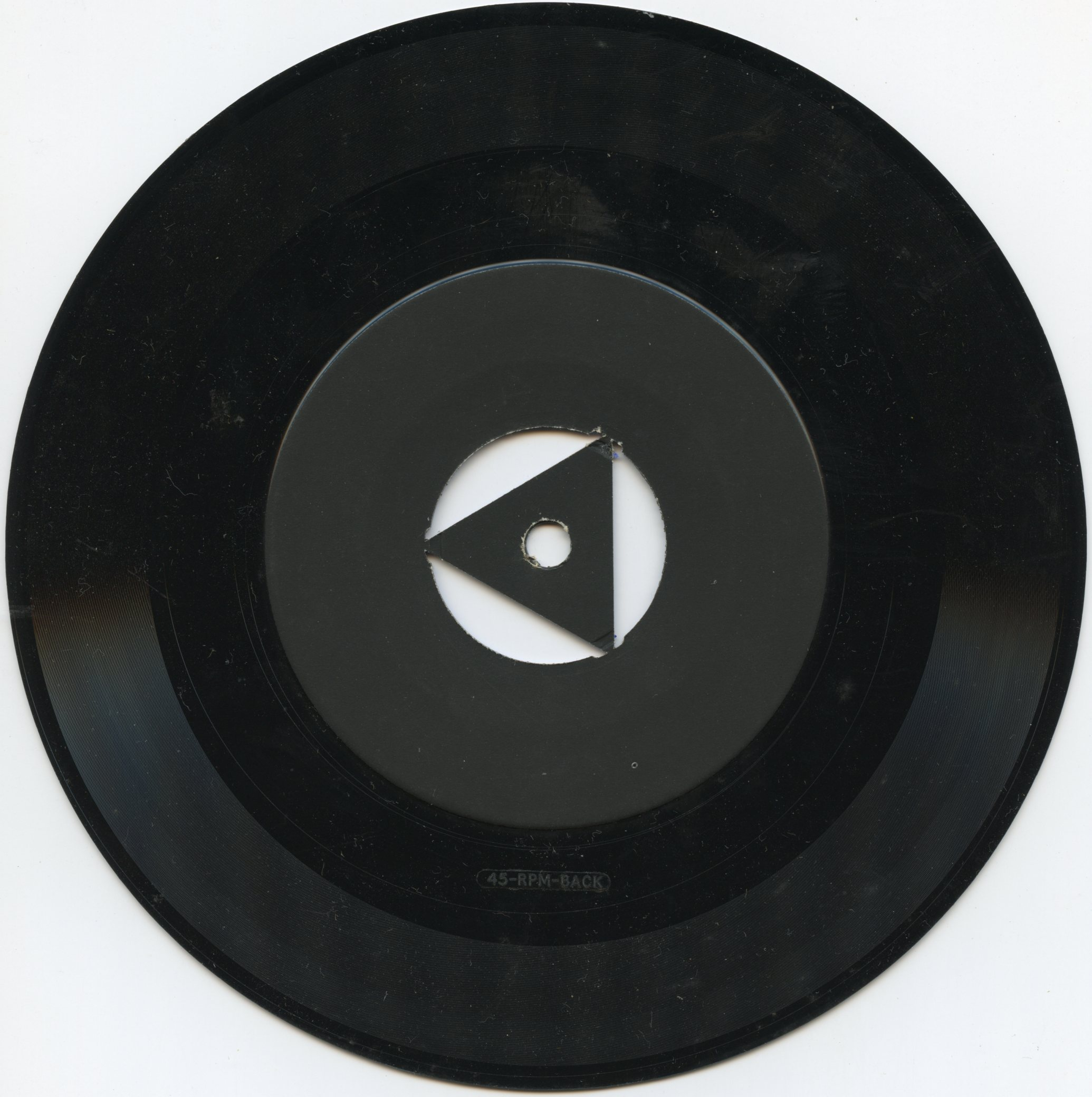 7 Single Record